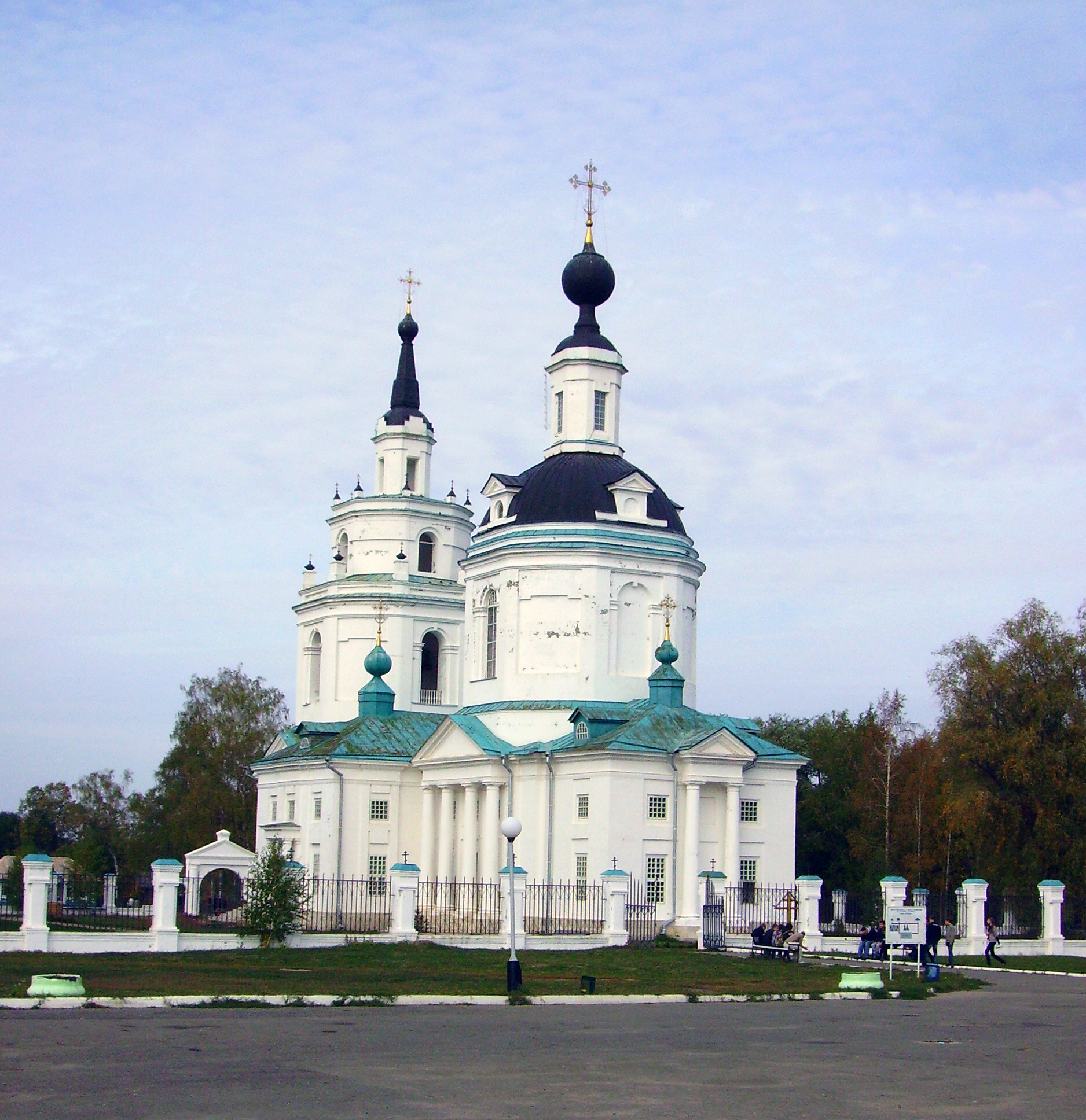 Bolshoye Boldino. Assumption Church